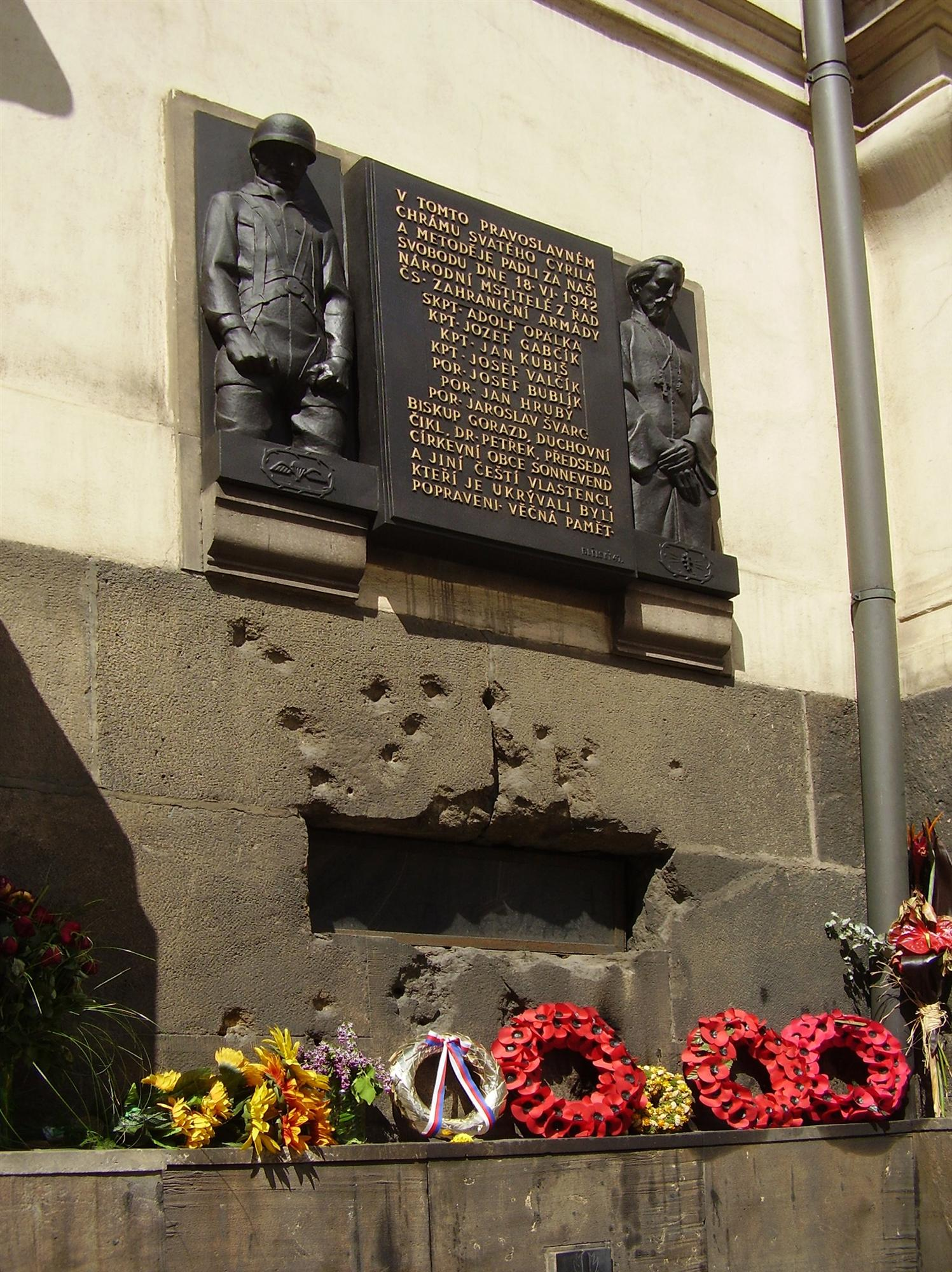 Memorial of seven czech paratroupers, who commited the assassination of Reinhard Heydrich, on the wall of Saints Cyril and Methodius church in Prague where they committed suicides with their last projectiles of each in lost fight against germans predominance .